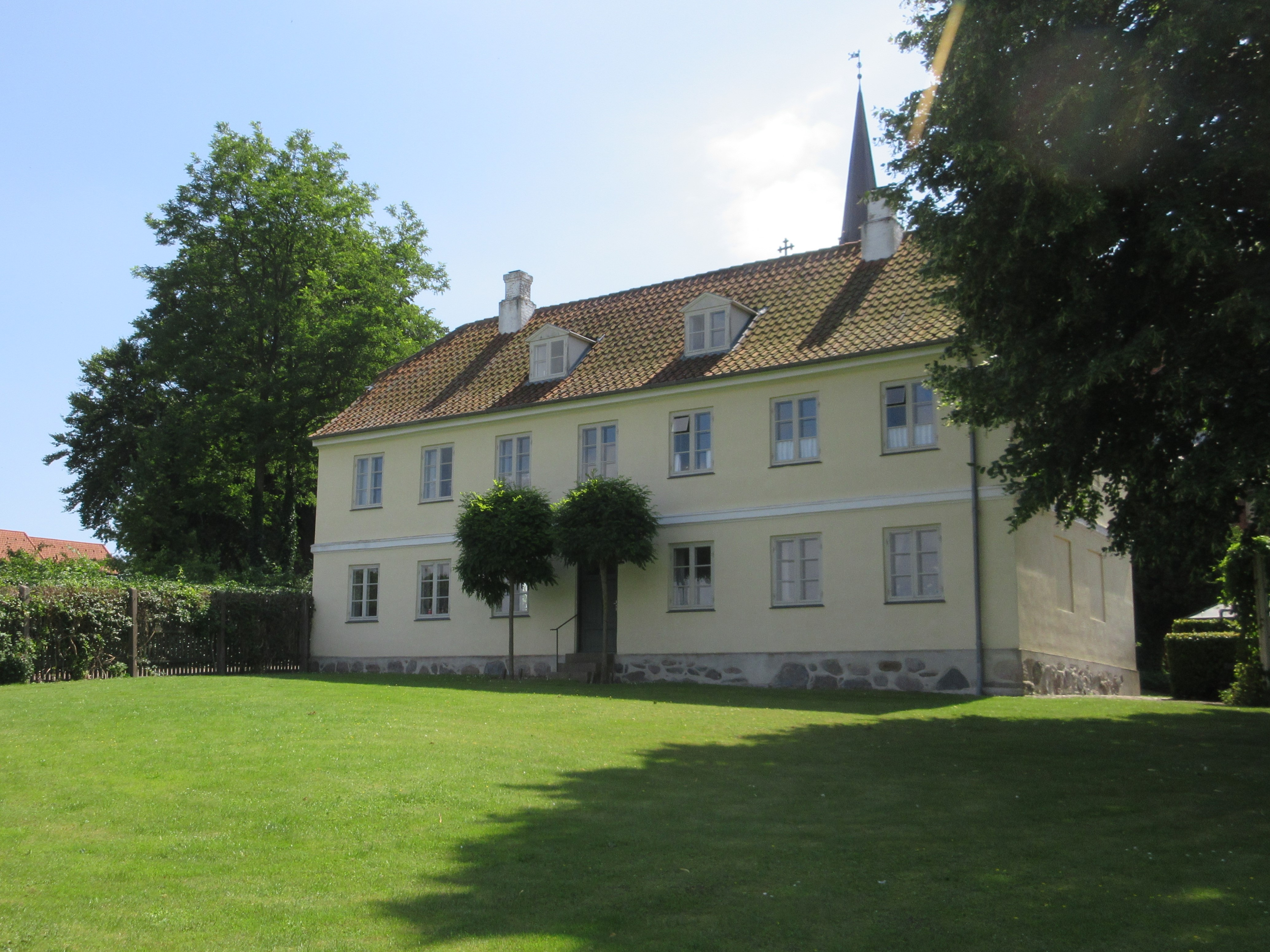 Meyercrones Stiftelse in Roskilde, Denmark